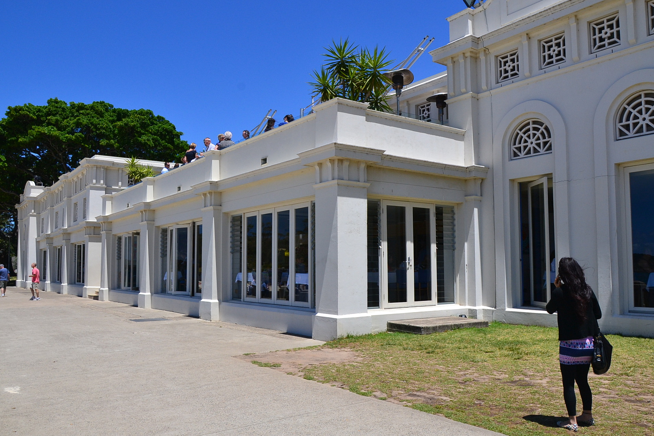 Pavilion, Edwards Beach, Sydney